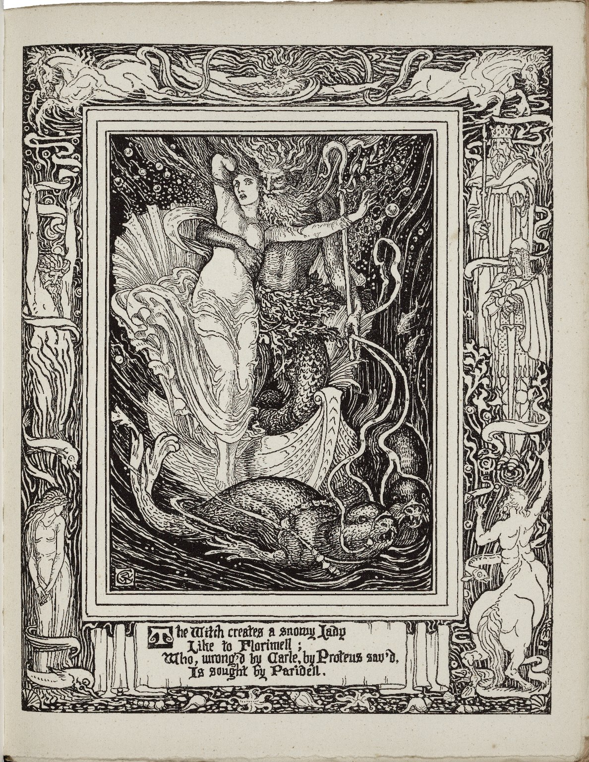 Book lll, Part Vlll, before page 703 of the 1895-1897 edition of Edmund Spenser's The Faerie Queene